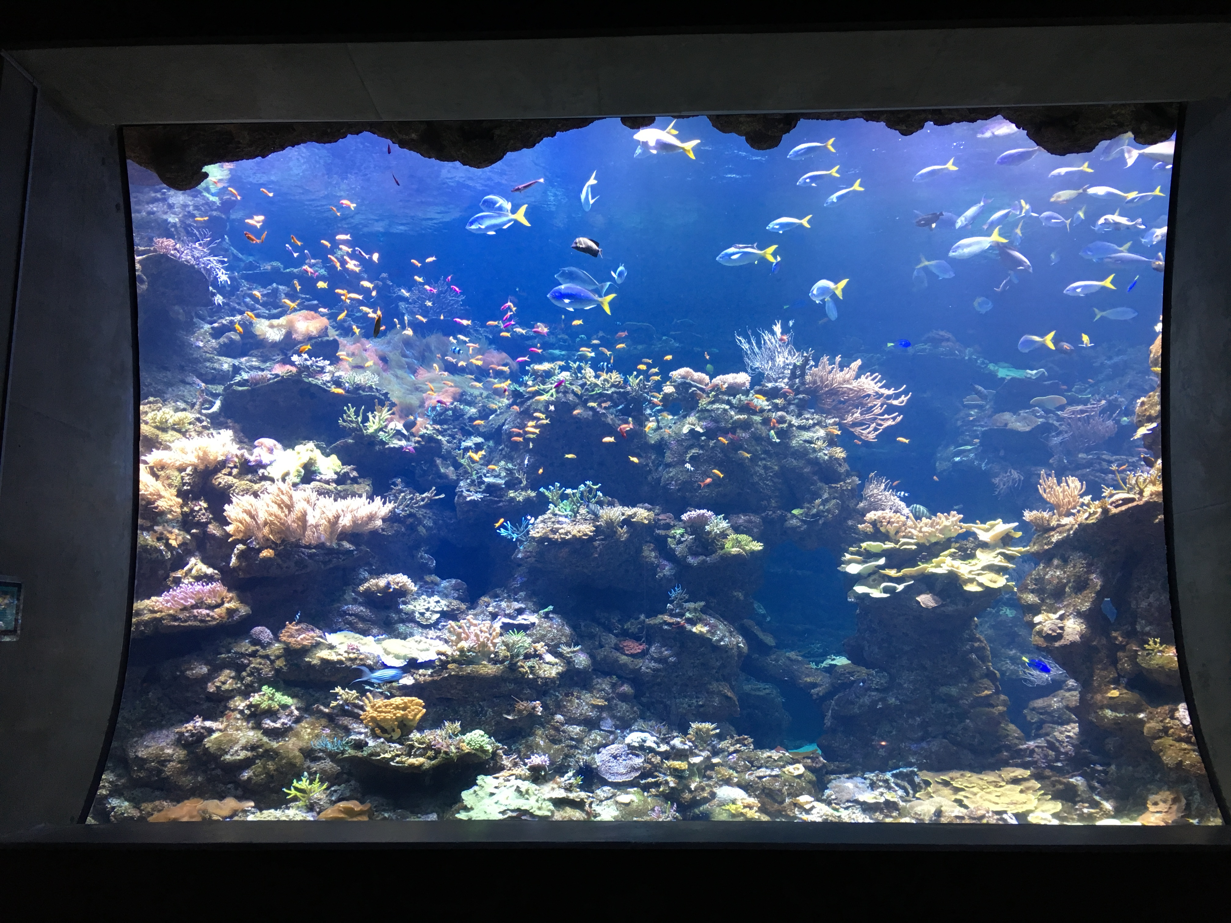 California Academy of Sciences - Steinhart Aquarium